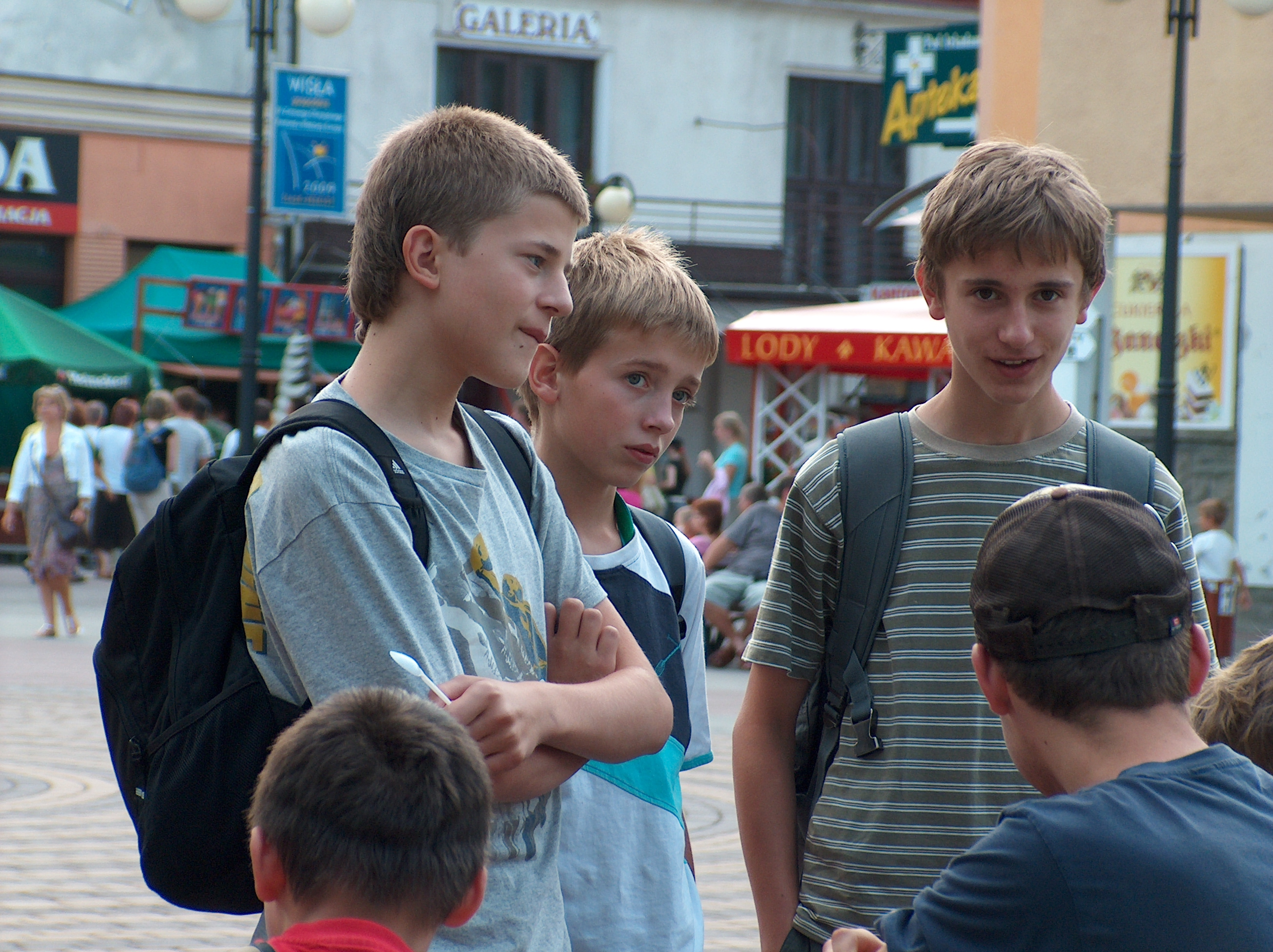 Polish teenagers.